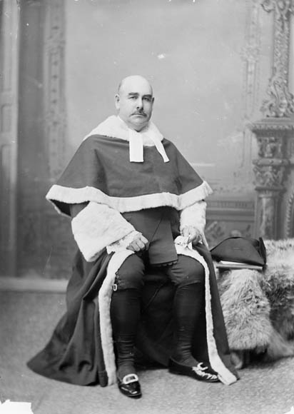 The Hon. Mr. Justice George Edwin King, (Judge of the Supreme Court of Canada) Oct. 8, 1839 - May 7, 1901.